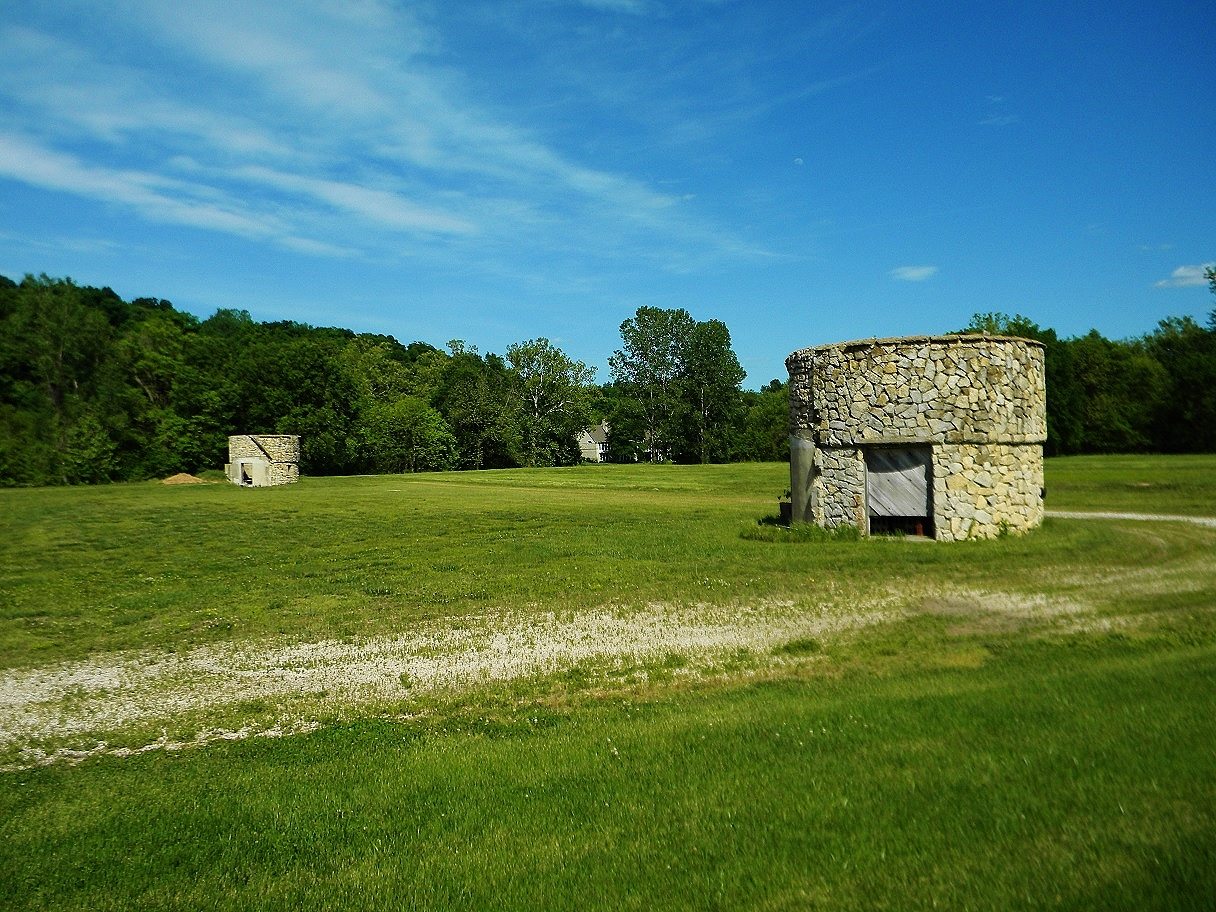 St. Albans Farms Stone Barn Sole remains of barn structure pictured; some portions may have been used in construction of Old Mill Inn.